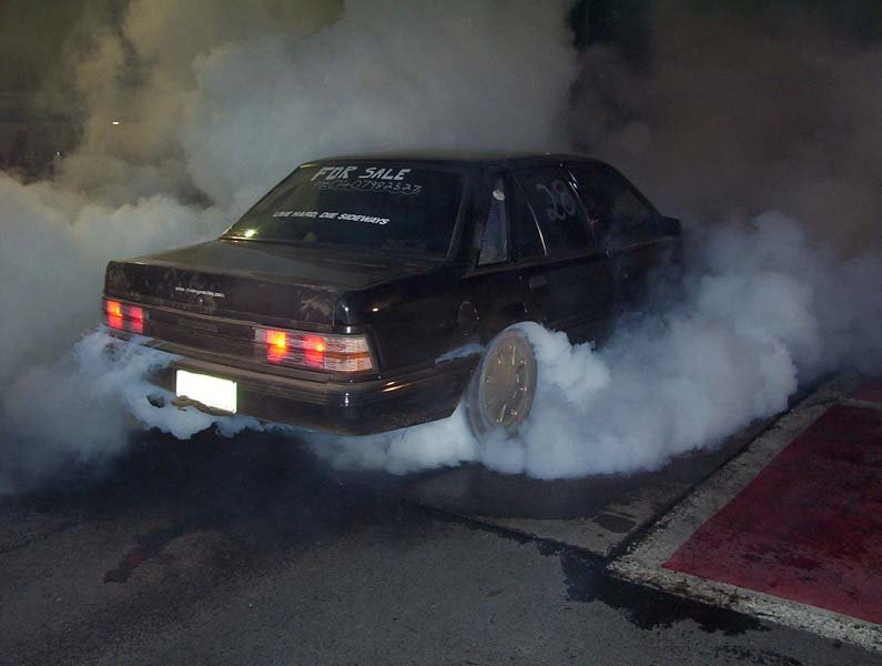 1986–1988 Holden VL Commodore, photographed in Australia.